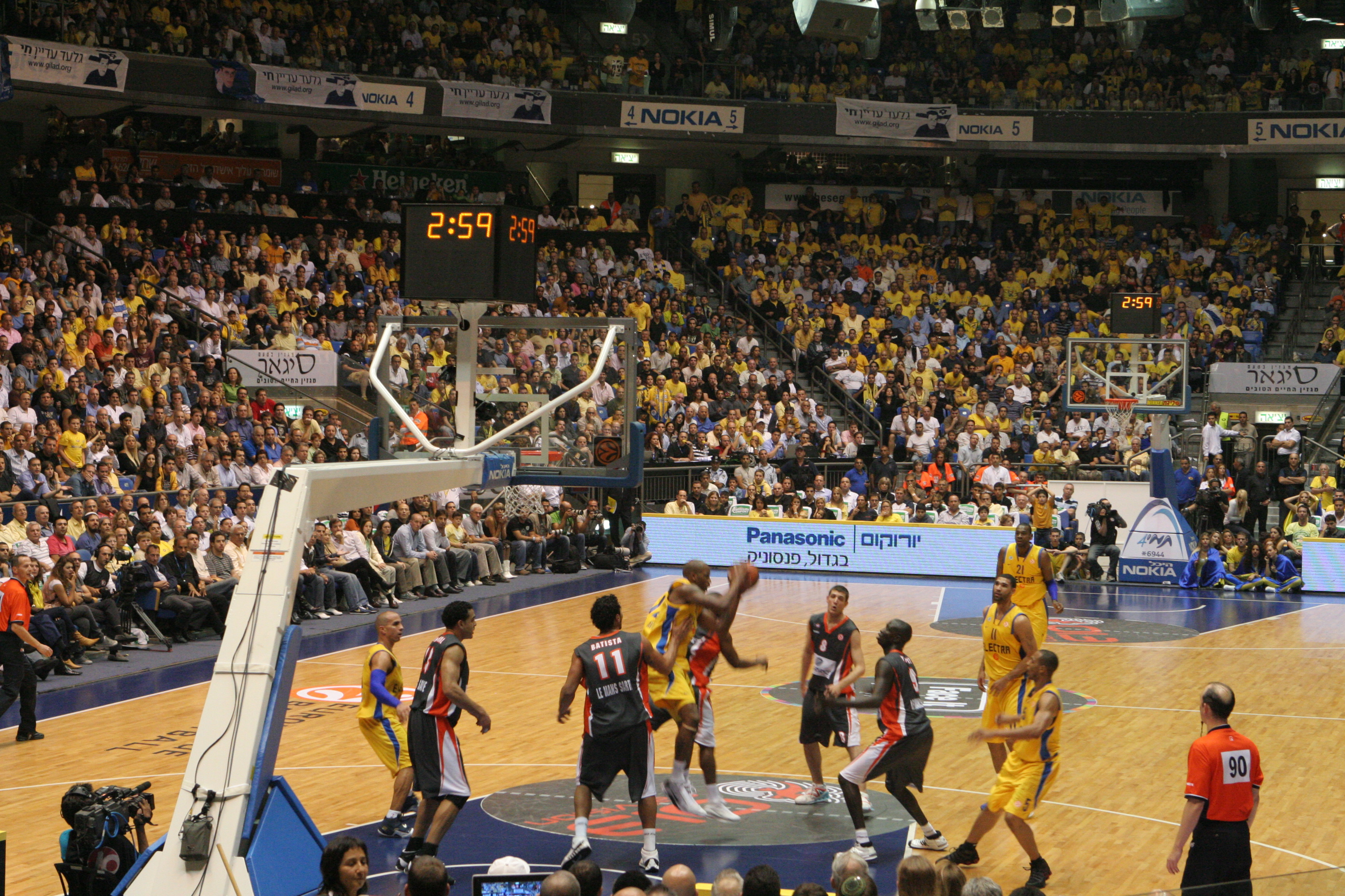 Nokia Arena at Tel Aviv